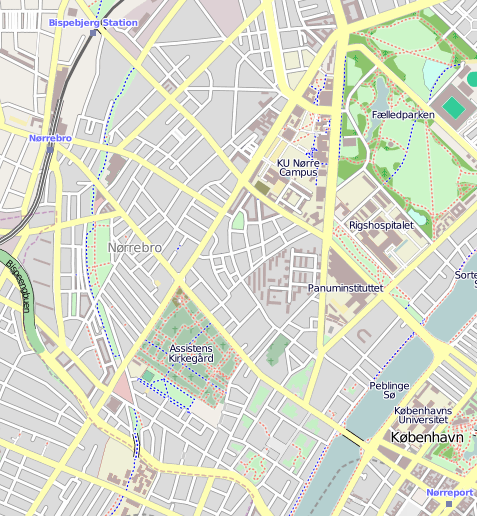 Map of Noerrebro, Copenhagen